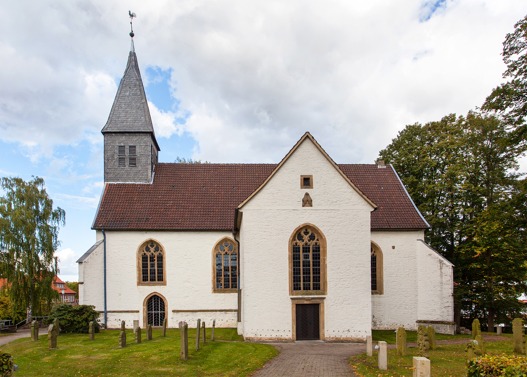 Church in town of Vlotho, District of Herford, North Rhine-Westphalia, Germany.